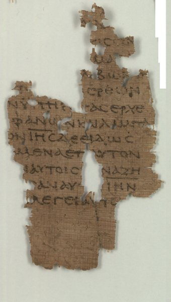 Papyrus 108 verso